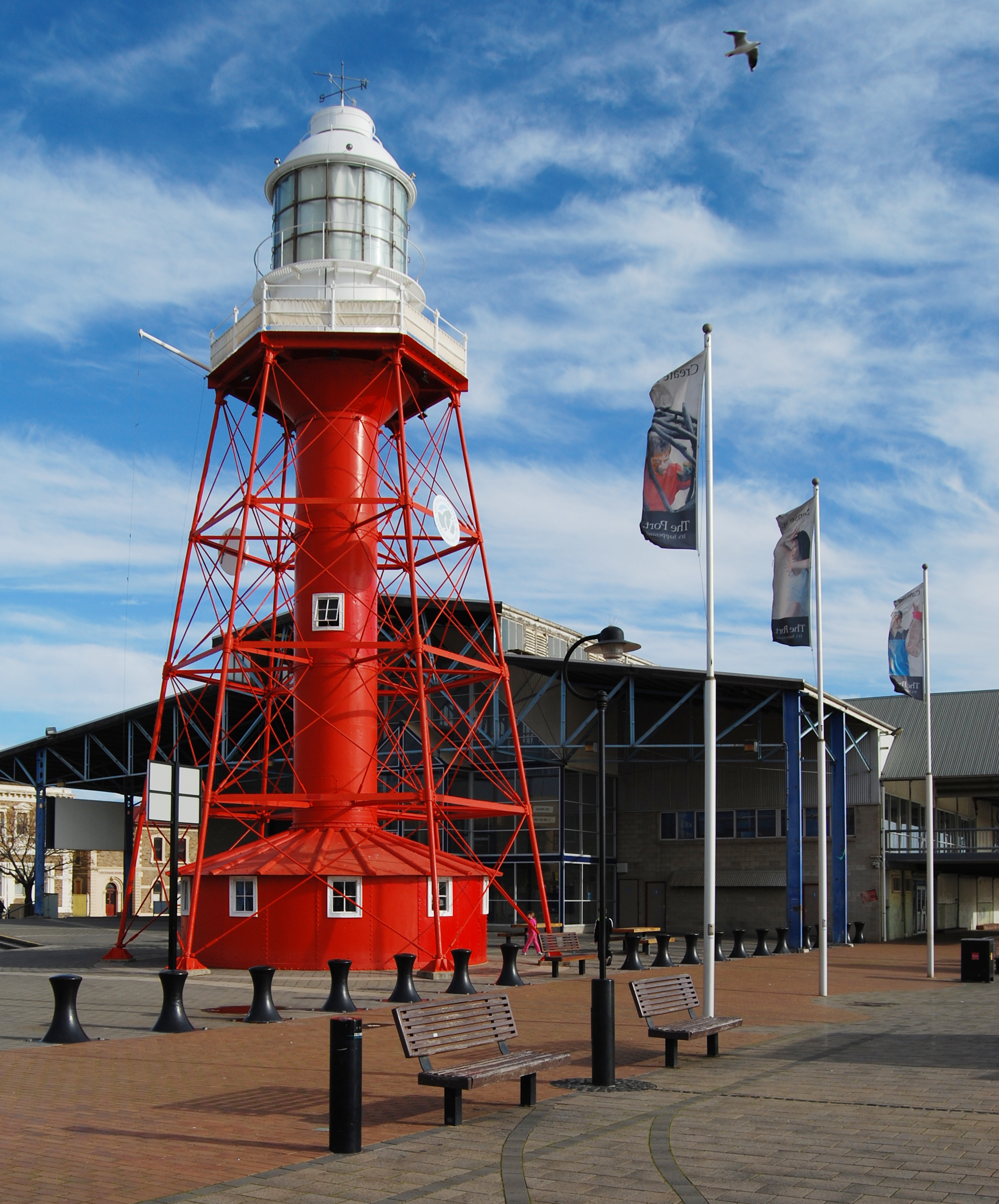 The Lighthouse at Port Adelaide, with the "Fisherman's Wharf" market in the background.